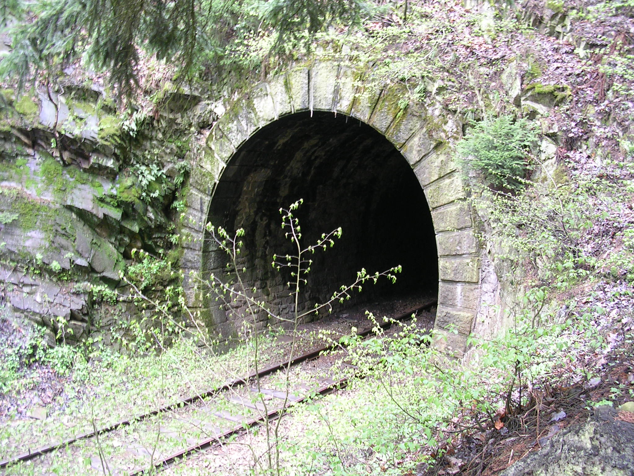 Klínec, Central Bohemian Region, the Czech Republic. Railway tunnel.